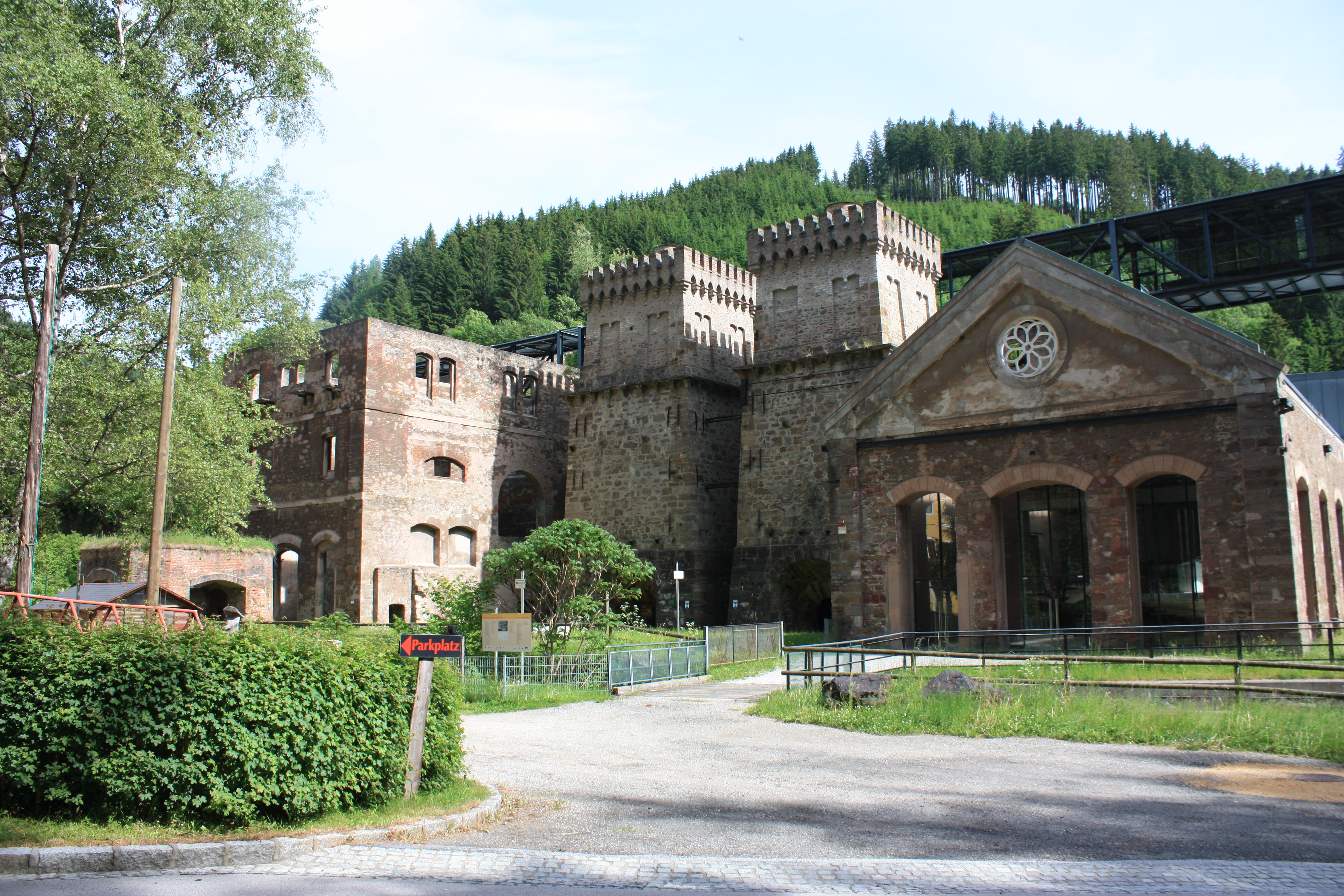 Former Blast furnaces in Heft in the community of Hüttenberg